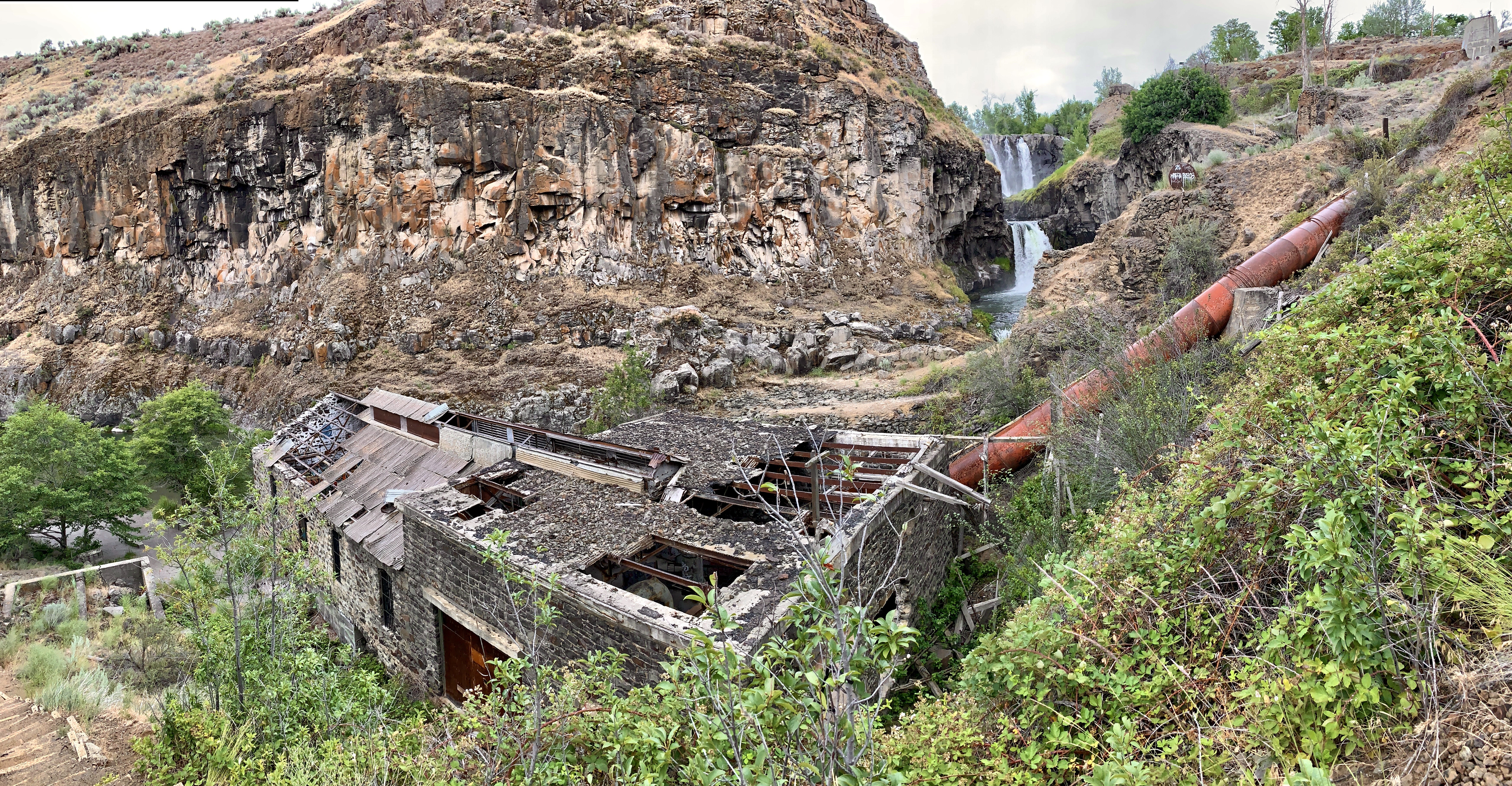 Ruins of the hydroelectric power plant in the foreground, White River Falls in the background.